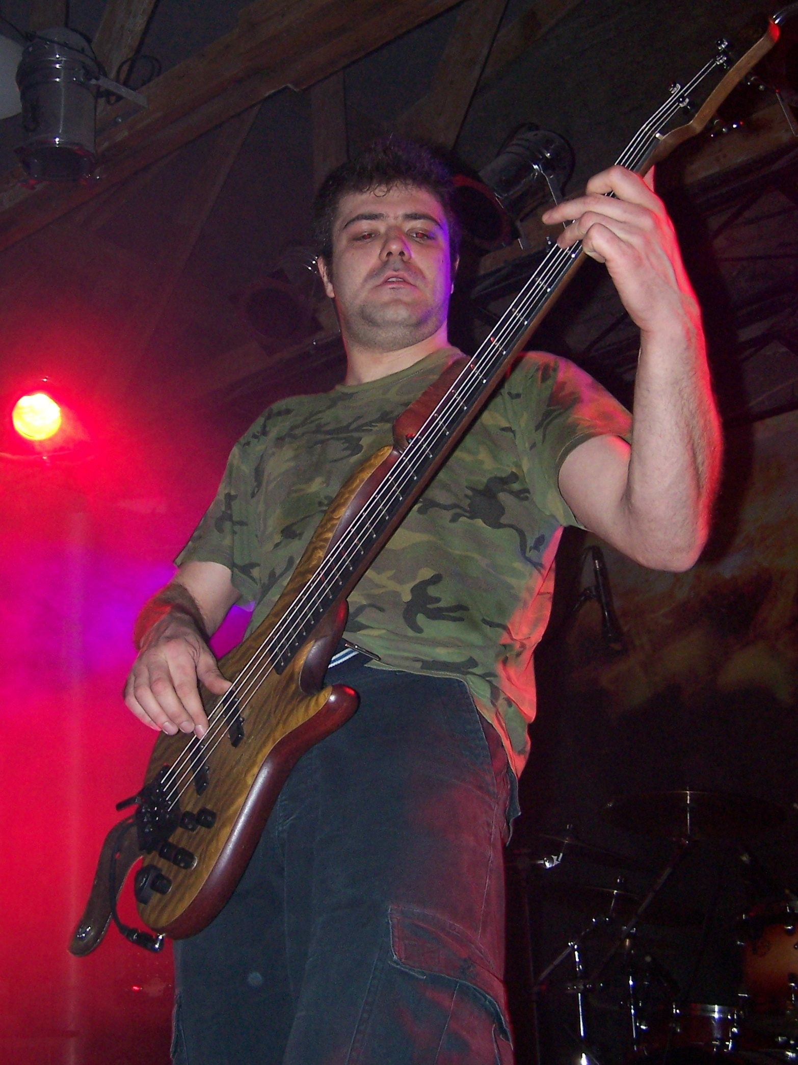 Rafał Matuszak from polish rock band Coma.